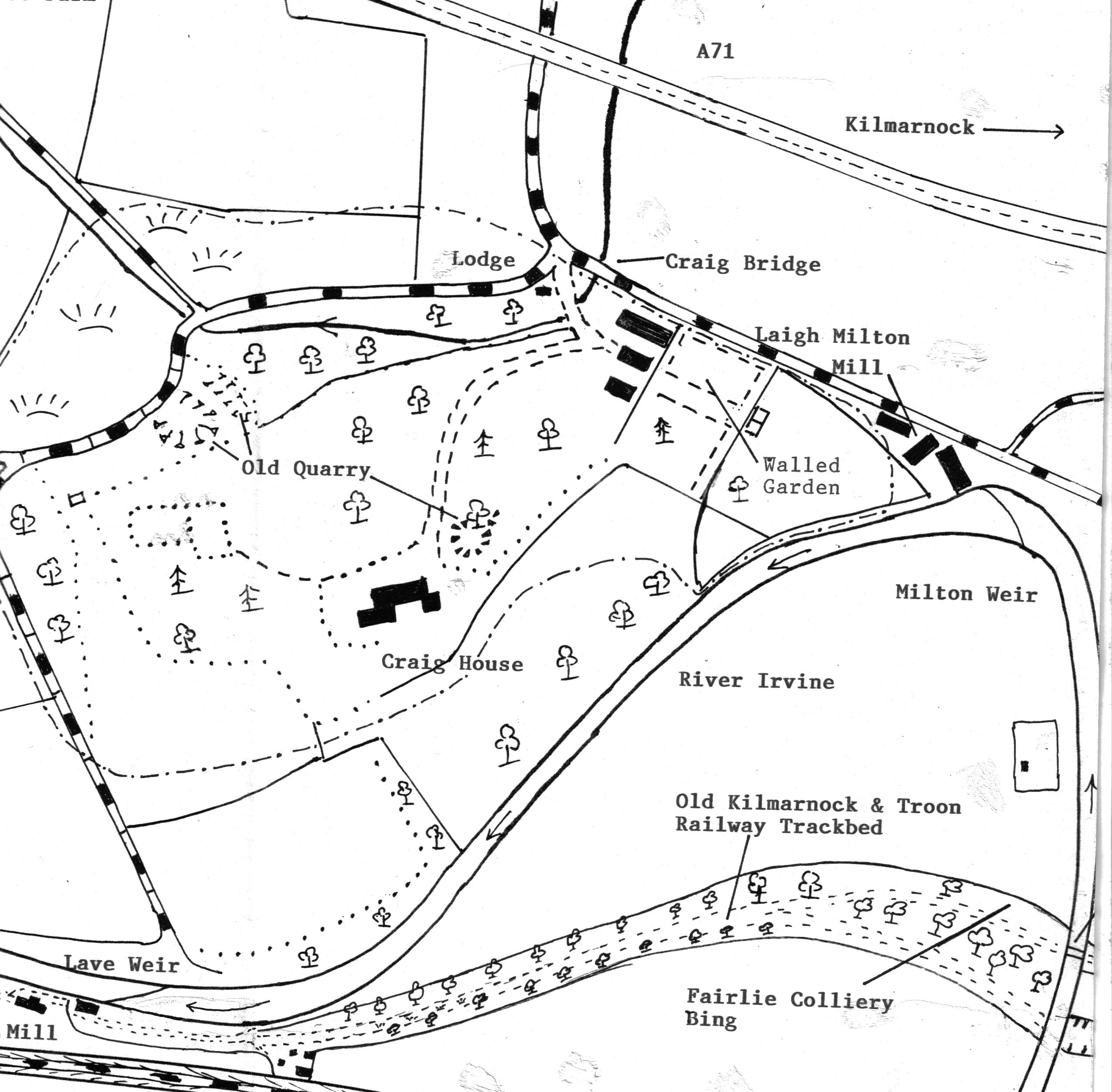 A map of Craig House and Laigh Milton Mill in East Ayrshire, Scotland.